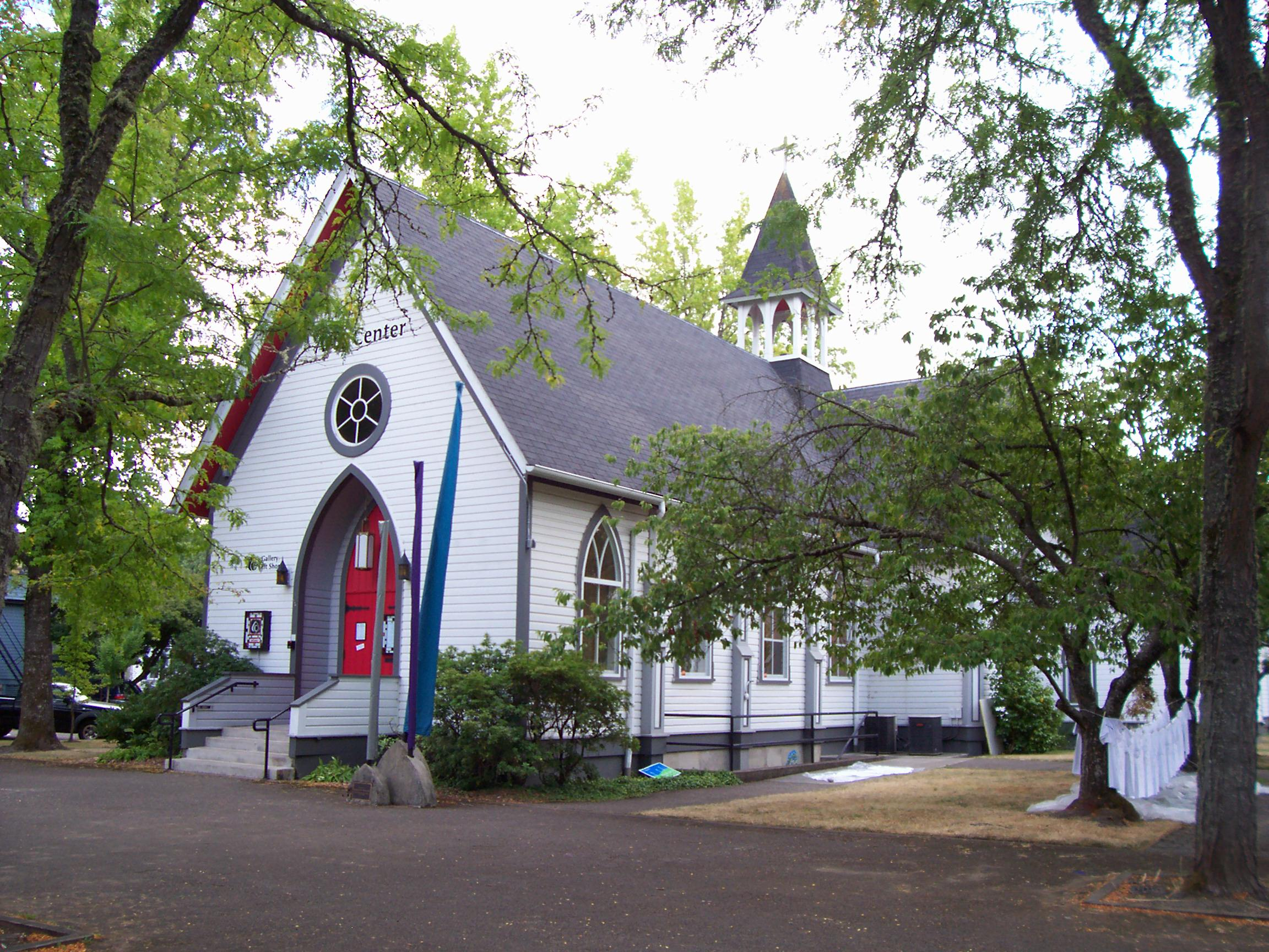 Episcopal Church of the Good Samaritan in Corvallis Oregon. Listed on the National Register of Historic Places.